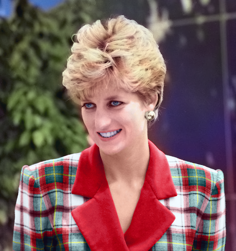 Princess Diana opens The Paisley Centre and pays a visit to the Accord Hospice. Colorized.